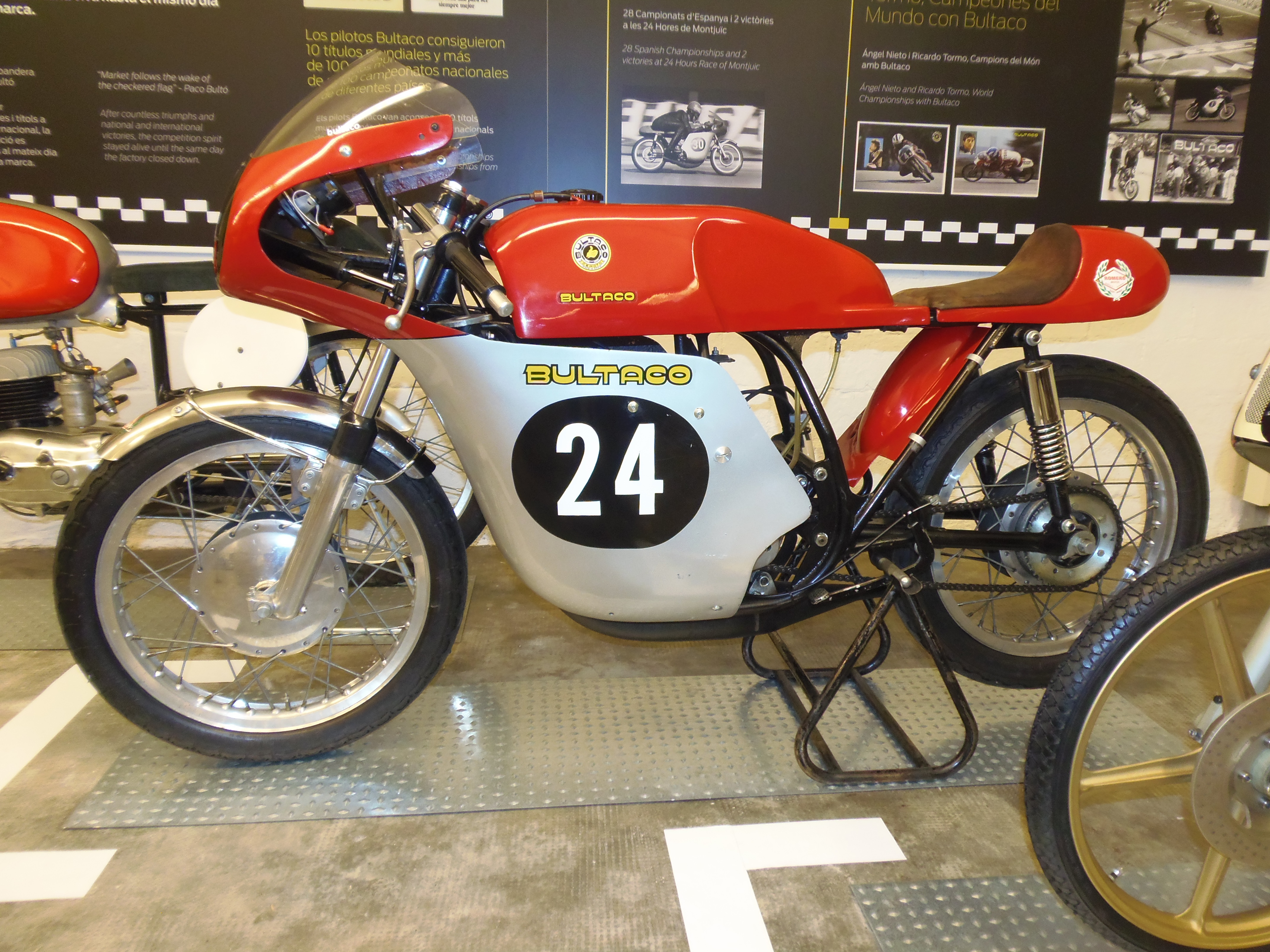 Bultaco TSS, 125 cc, 1968. With a unit like this one, Salvador Cañellas became the first Catalan rider to win a World Championship Grand Prix in 1968.